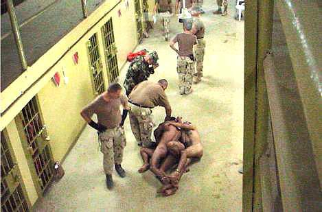 11:06 p.m., Oct. 25, 2003. Three detainees were handcuffed together nude. They were involved in the rape of a 15-year-old detainee. SOLDIER: CPL GRANER; NAKHLA (Civilian Interpreter); SPC RIVERA, SPC KROL, SPC CRUZ; SPC HARMAN, Possibly SPC SMITH, Unknown. All caption information is taken directly from CID materials. U.S. Army / Criminal Investigation Command (CID). Seized by the U.S. Government.